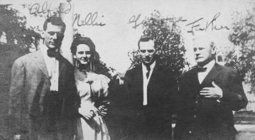 Nellie Tayloe about 1900 with her brothers, Albert and George, and their father, James.